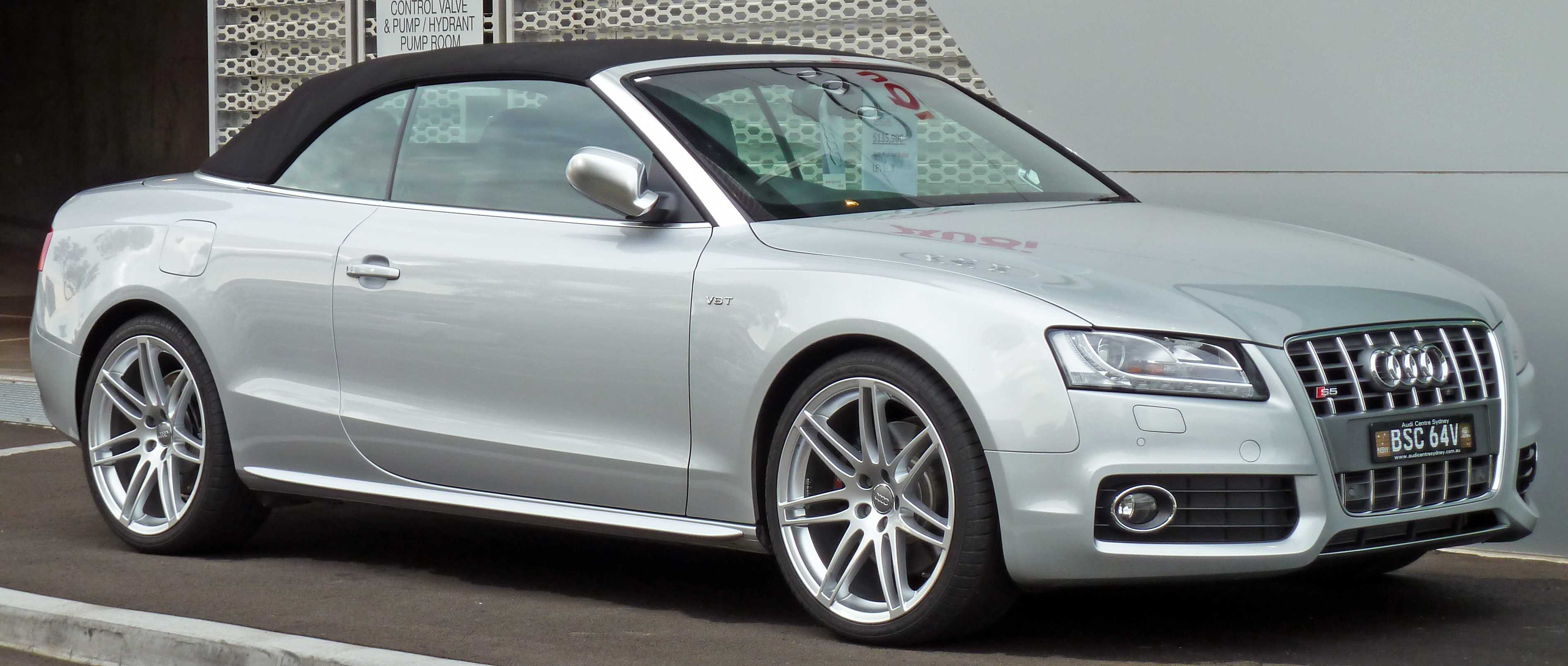 2009 Audi S5 (8F7 MY10) convertible. Photographed at the Audi Centre Sydney, Zetland, New South Wales, Australia.